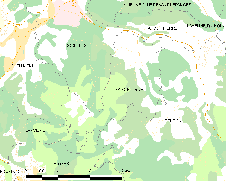 Map of French municipality Xamontarupt